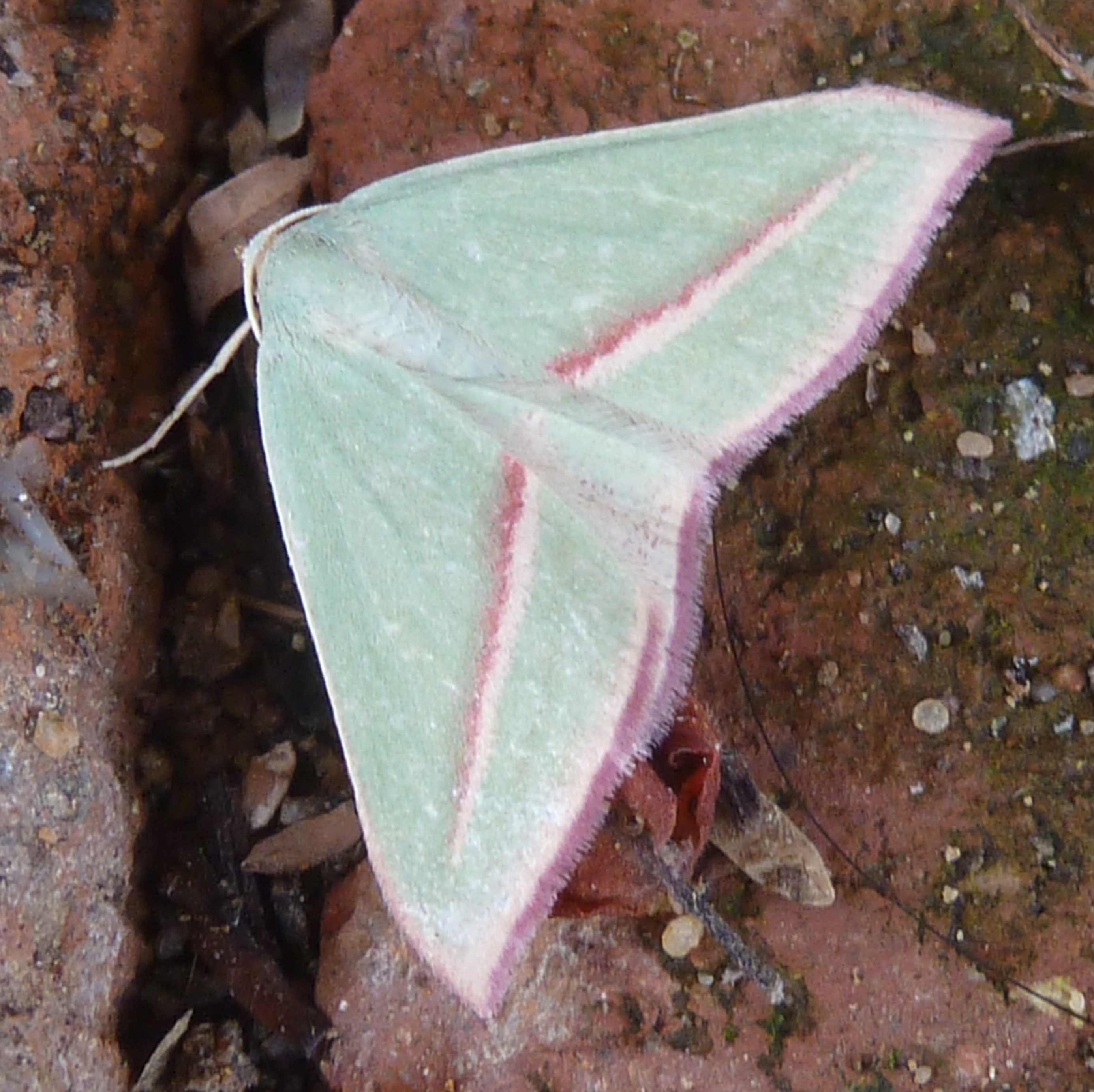 Green vestal in suburban Pretoria, South Africa. The species is widespread in Africa, where the larvae feed on different Acacia species.